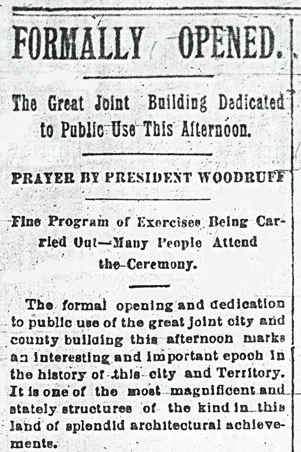 After repeatedly decrying the costly construction of the Salt Lake City and County Building, the Deseret Evening News, had a change of heart by the building's dedication on December 28, 1894. Source: Microfilm from the University of Utah Marriott Library. Full announcement at :Image:City-County Building announcement full.jpg.